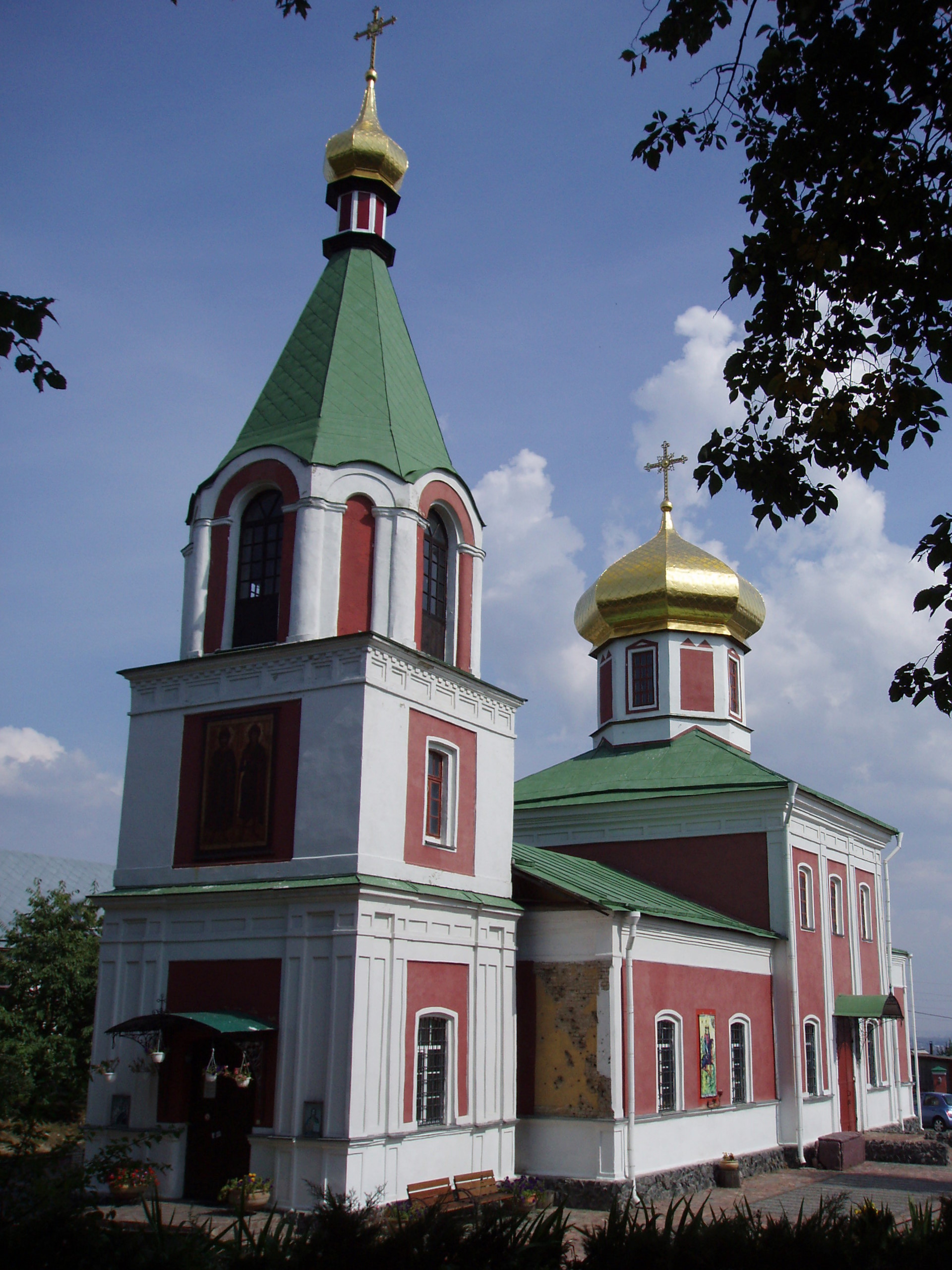 Borysohlebska Church in Vyshhorod.